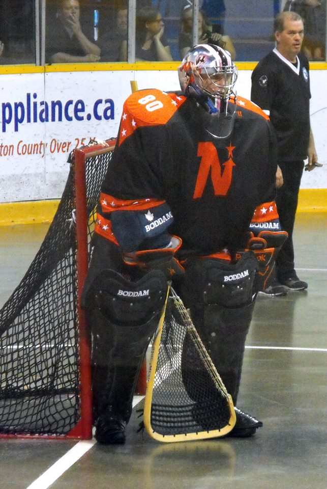 These images of Ontario Senior B Lacrosse Action action during the 2014 season are taken by Devan Mighton.